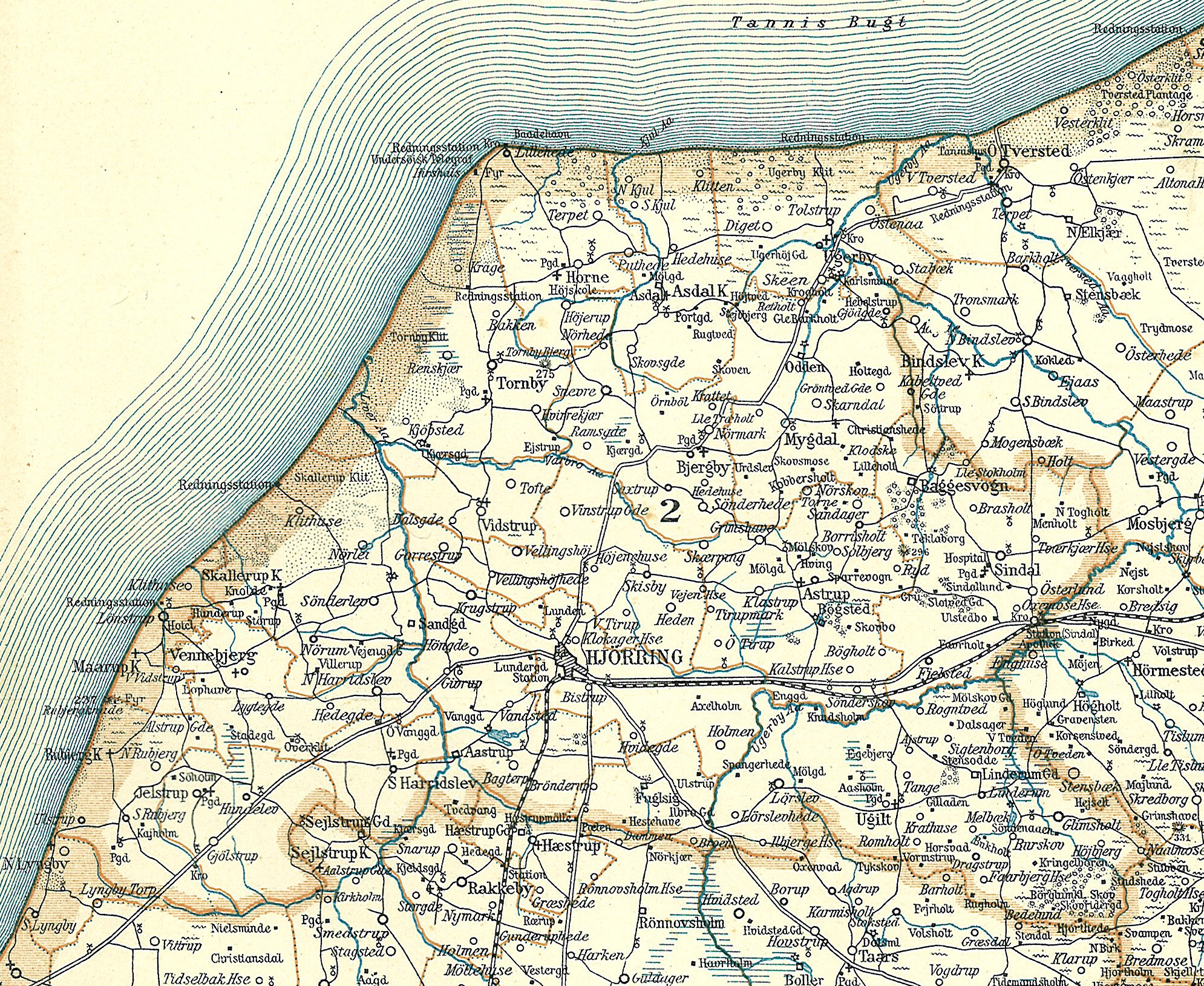 Map of Vennebjerg Herred Hjørring County in Denmark